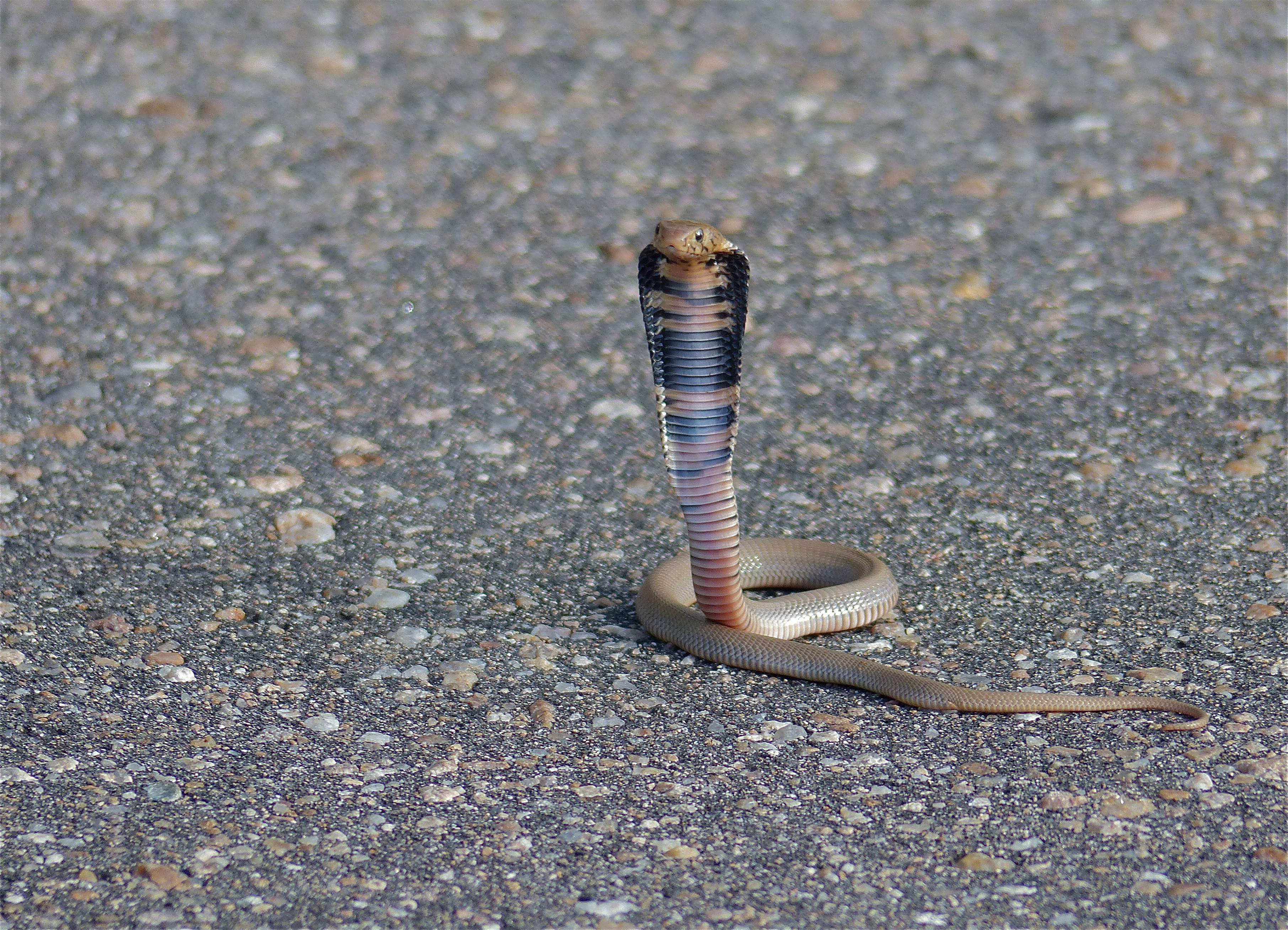 H14 Road North of Phalaborwa, Kruger NP, SOUTH AFRICA